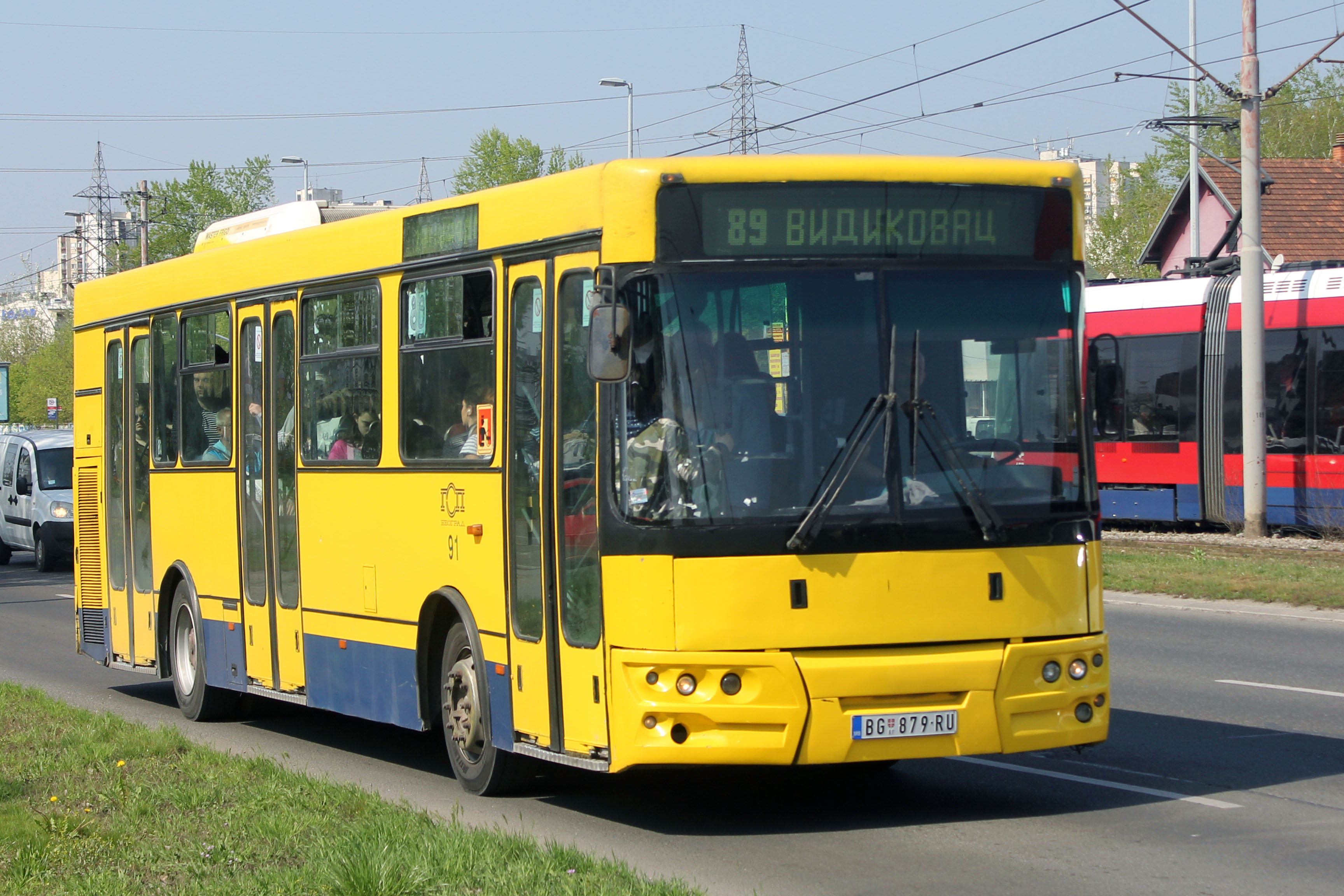 Ikarbus-FAP IK-103F city bus of GSP Belgrade city public company on line No.89.